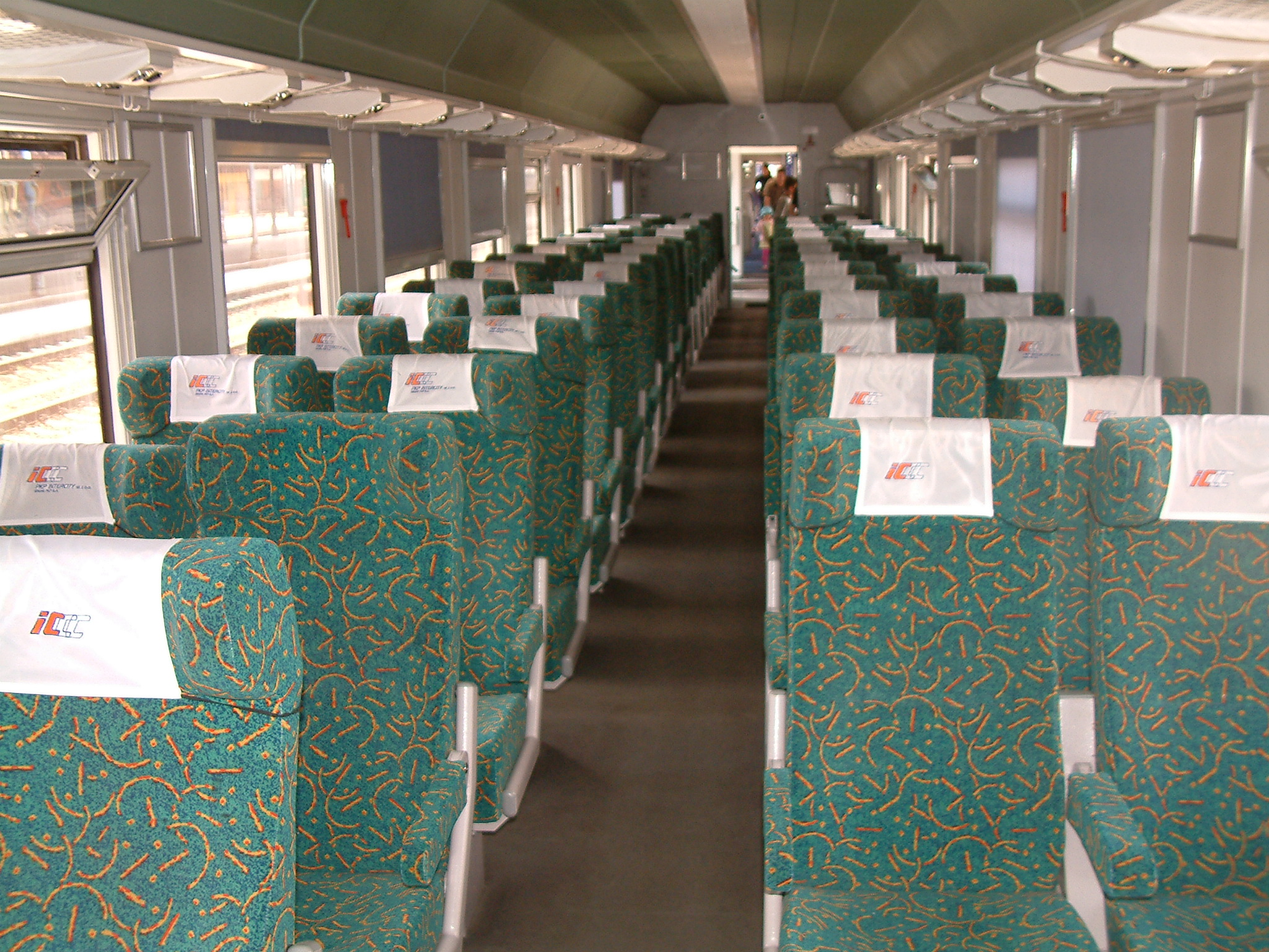 Rail car of PKP, Inter City, 2nd class